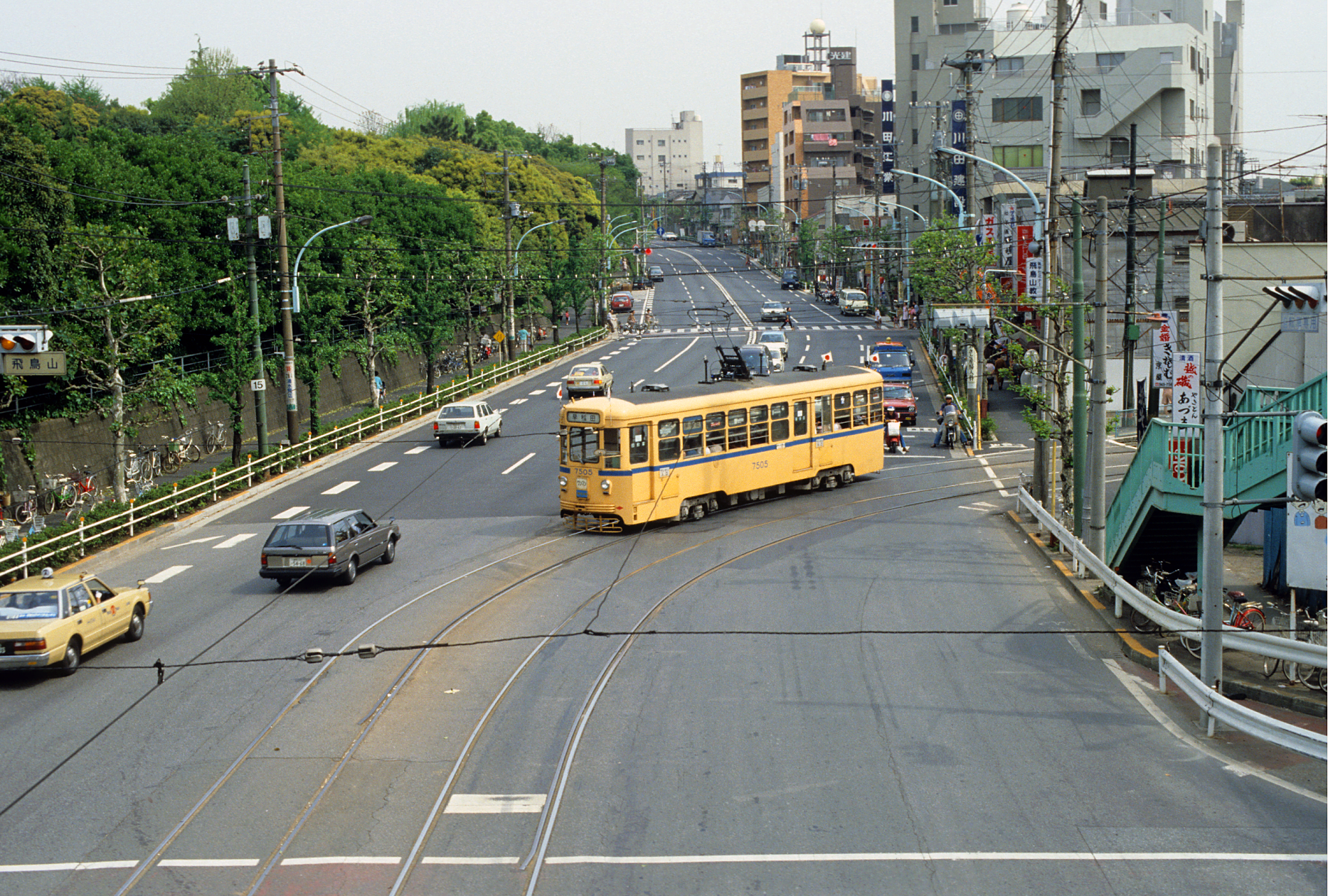 Toei 7500 series tramcar 7505 near Asukayama in Tokyo